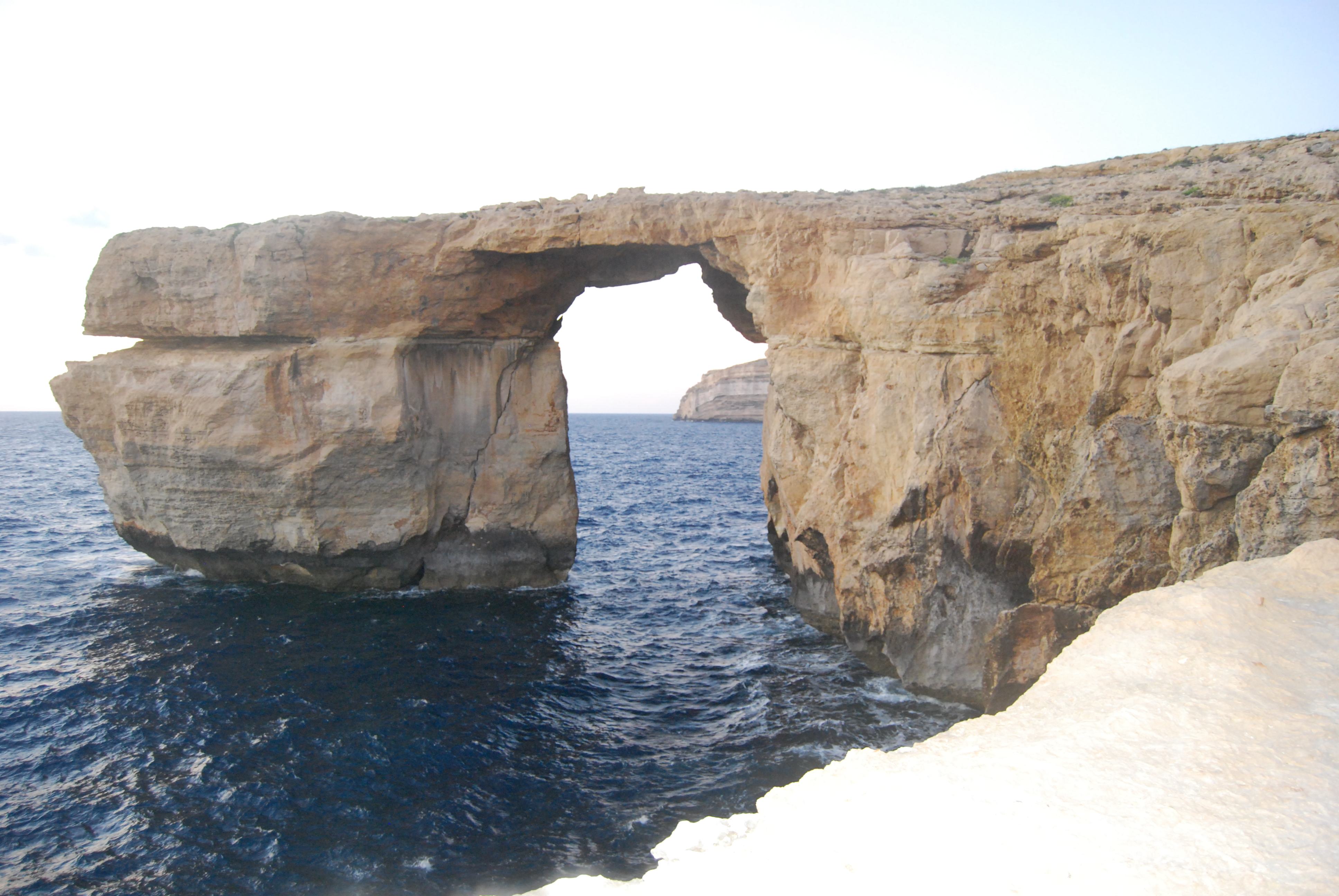 Azure Window, Saint Lawrence, Gozo, Malta